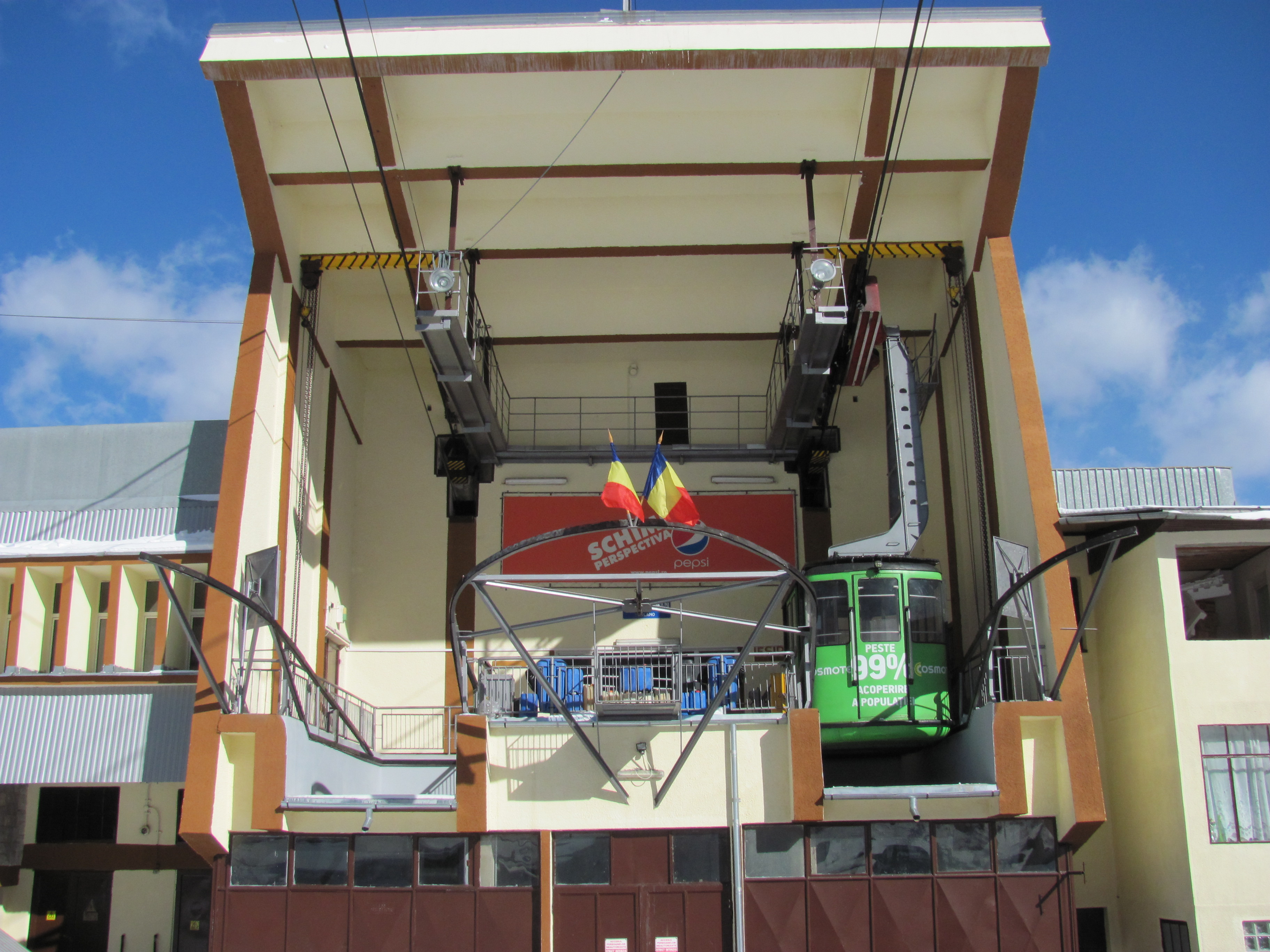 Stația din Bușteni